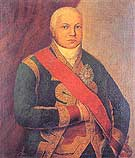 Francisco de Melo da Cunha Mendonça e Meneses, 1st count of Castro Marim and 1st marquis of Olhão.